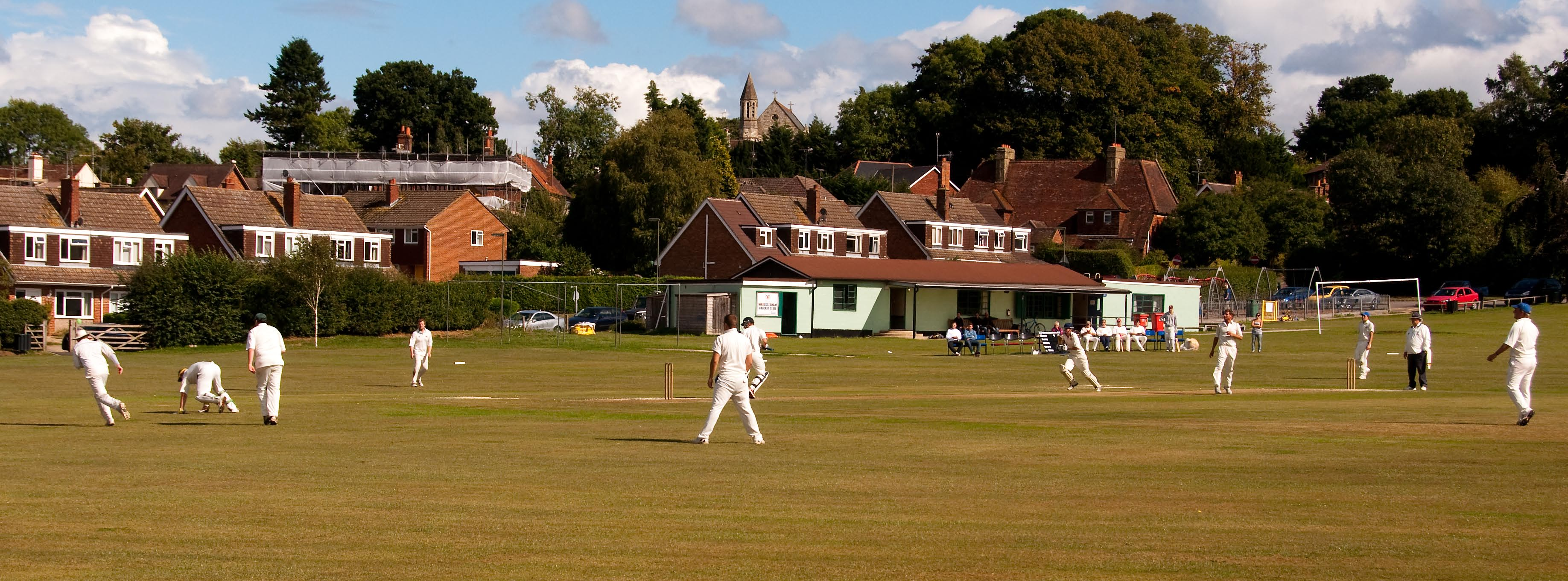 Wrecclesham v Headley Sept 2013